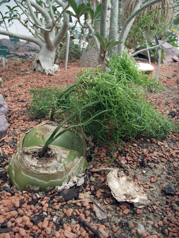 Bowiea volubilis in the greenhouses of the Jardin des Plantes de Paris, France.